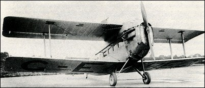 Vickers Vulcan airliner G-EBLC